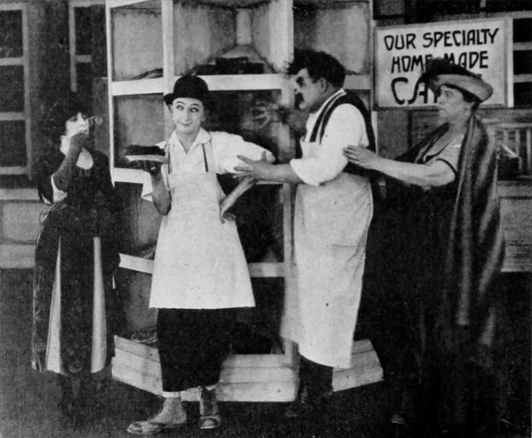 Still from the American comedy short film The Bakery (1921) with Larry Semon, the other actor and actresses are not identified, on page 80 of the May 7, 1921 Exhibitors Herald.